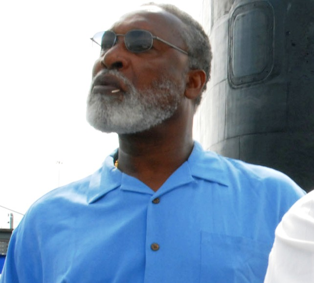 NORFOLK, Va. (June 13, 2007) – L.C. Greenwood, a former Pittsburgh Steeler, standson the brow of USS Albany (SSN 753) with Chief of the Boat, Michael Nichols, before going below decks to tour Albany. The tour was part of Summerfest 2007, hosted by Naval Station Norfolk's Morale Welfare and Recreation.